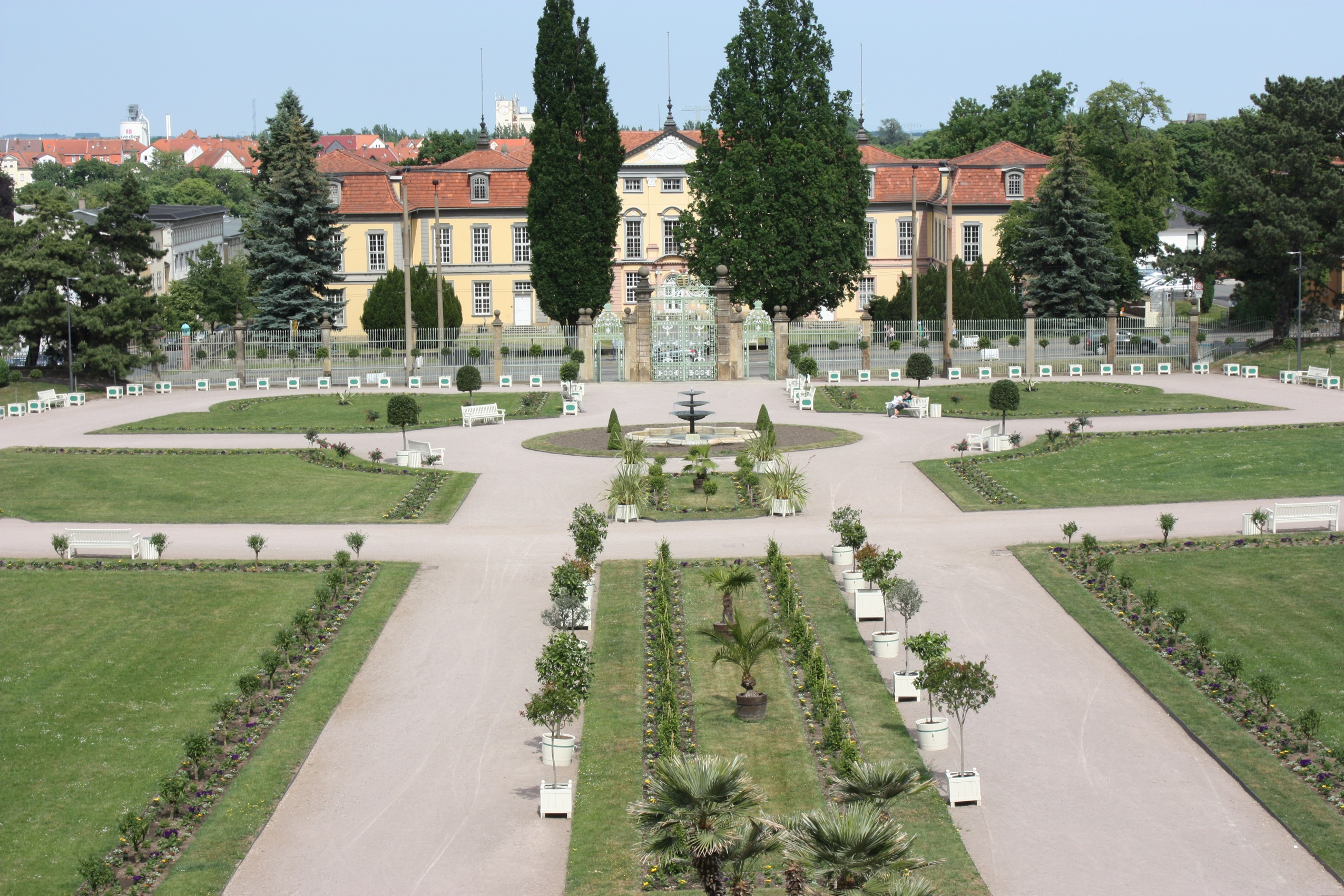 Gotha, the orangery park and the palace Friedrichsthal